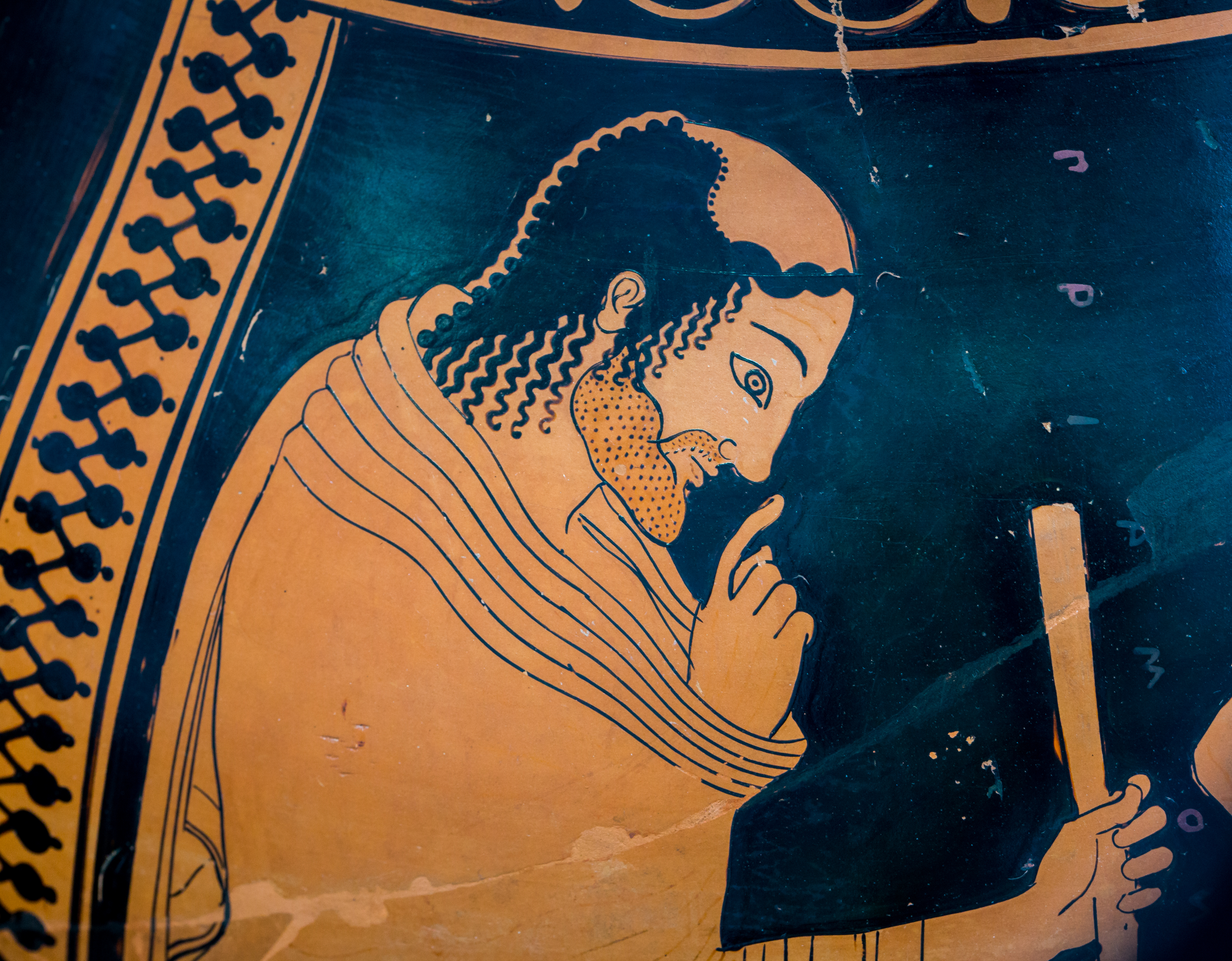 object type / vase shape: attic red figure amphora type A - description side A: young hector arming for battle, between his elderly father Priamos and his mother Hekabe; inscriptions: PRIAMOS, HEKTOR, HEKABE; EGRAPHSEN EYTHYMIDES HO POLIO - side B: 3 bearded men dancing at the komos; inscriptions: ELEOPI. TELES, ELEDEMOS KOMARCHOS; HOS OUDEPOTE EUPHRONIOS; translation of the last inscription: (this painting is so good) as Euphronios (a compeeting vase painter) never (could have painted it) - production place: Athens - painter: Euthymides, son of Polios (signed on A) - period / date: late archaic, ca. 510-500 BC - material: pottery (clay) - height: 60 cm - findspot: Vulci - museum / inventory number: München, Staatliche Antikensammlungen 2307 - bibliography: John D. Beazley, Attic Red-Figure Vase-Painters, Oxford 1963(2), 26, 1 - Please note: The above museum permits photography of its exhibits for private, educational, scientific, non-commercial purposes. If you intend to use the photo for any commercial aime, please contact the museum and ask for permission.